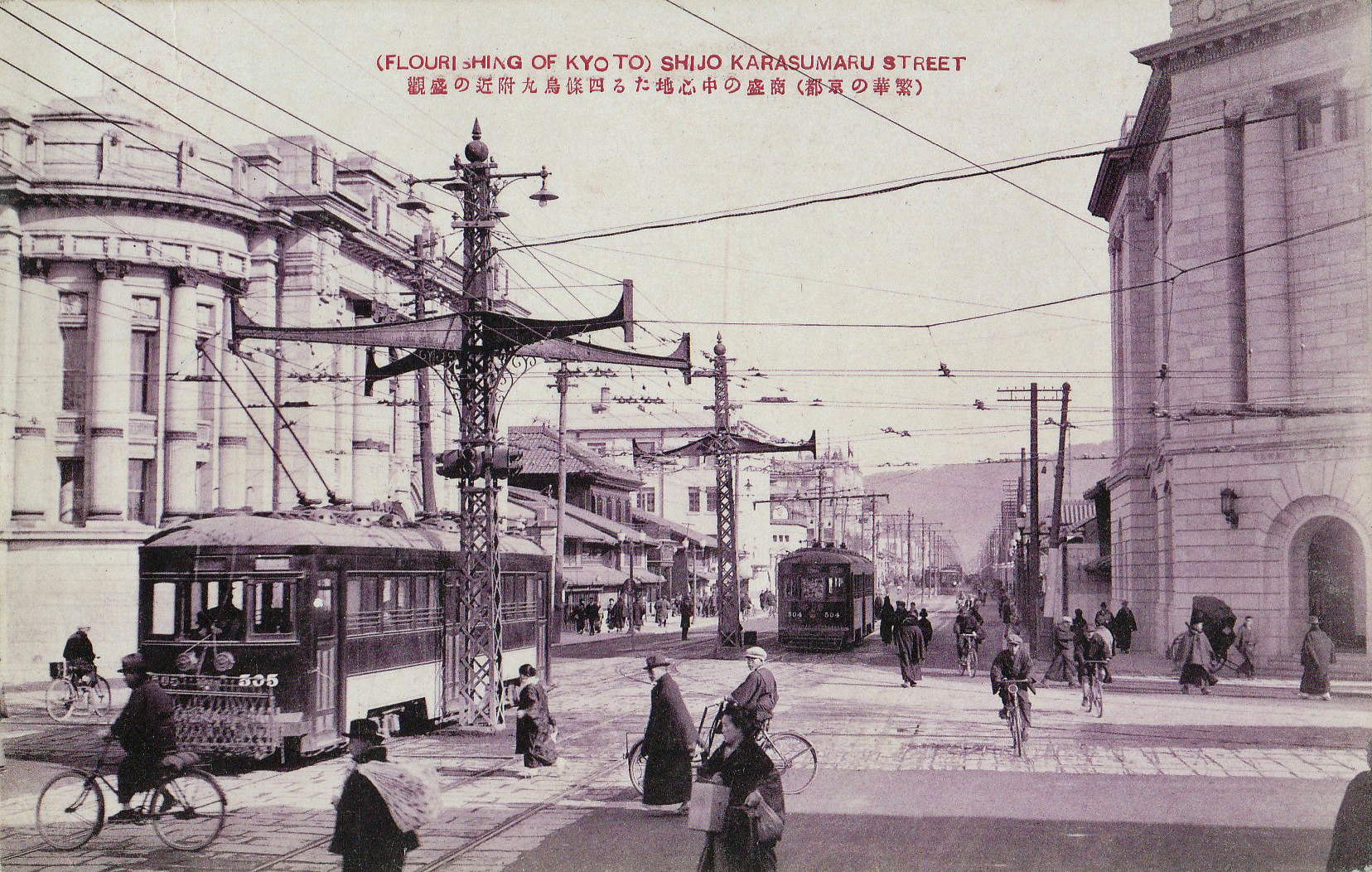 Japanese postcard showing a view of Karasuma Street in Kyoto